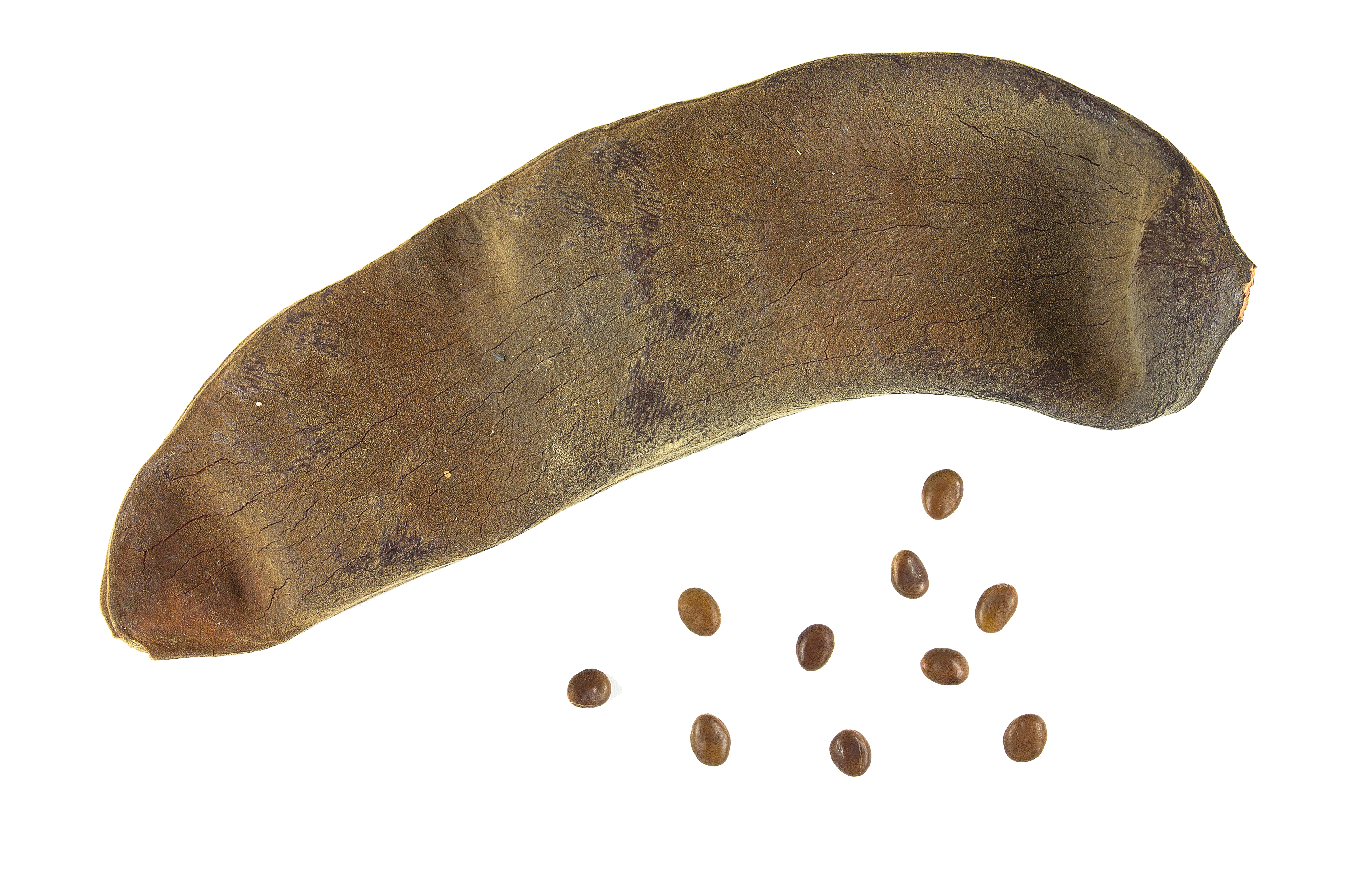 Piliostigma thonningii, wild bauhinia, seeds